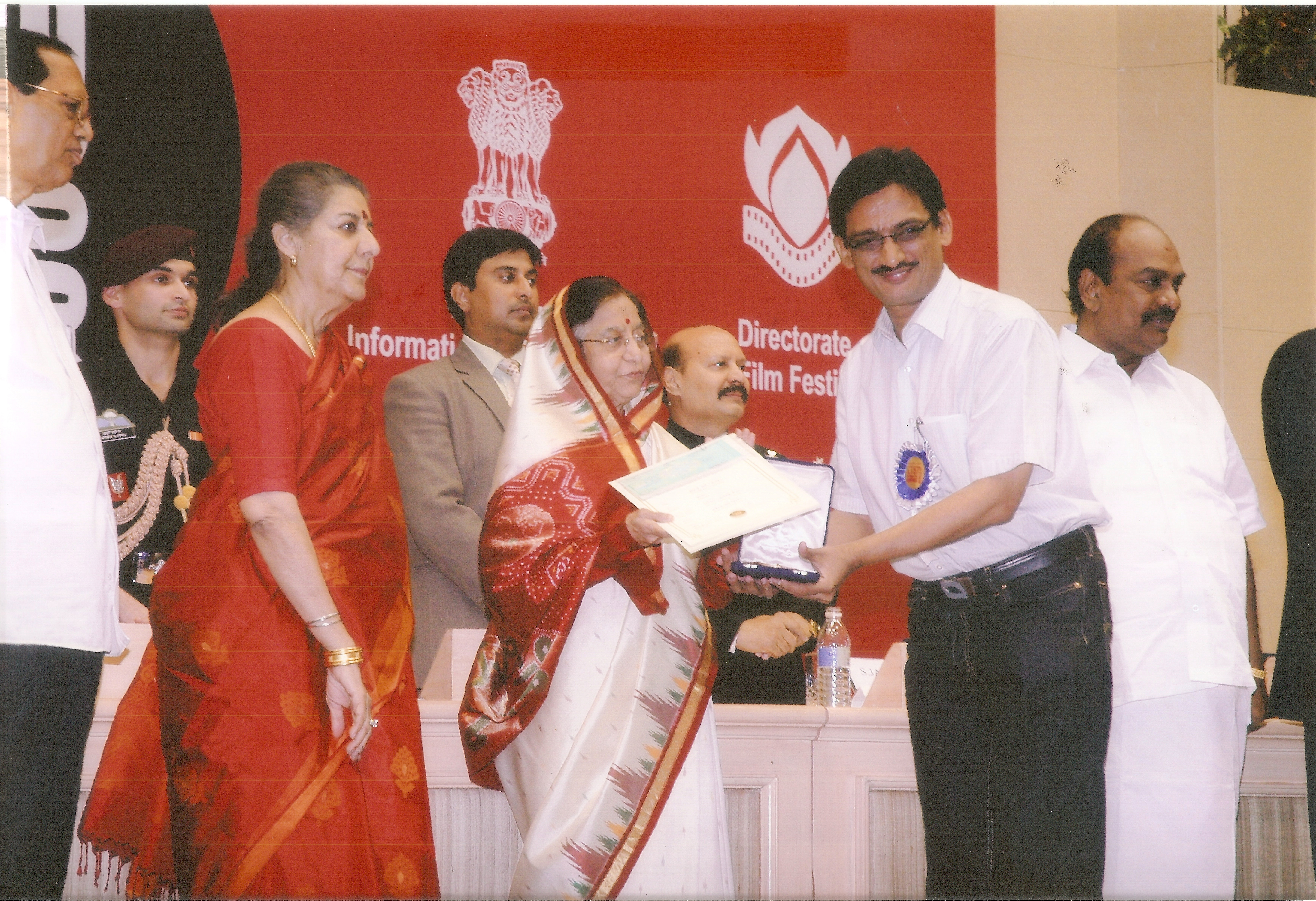 Director Ramchandra PN receiving the Best Children's Film Award at the 57th National Film Awards from the President of India